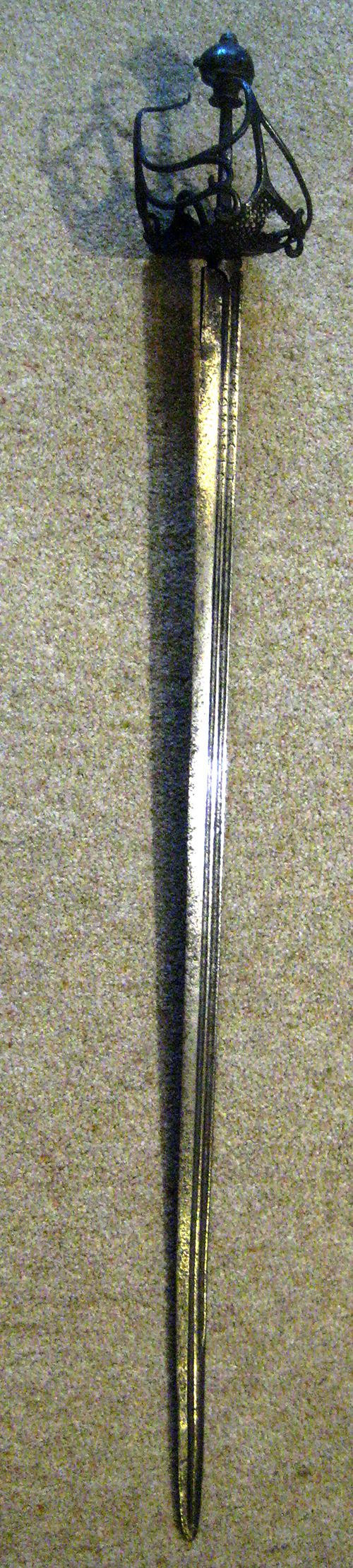 Joseph Jenkes, a Hounslow smith, whose name ‘IENCKES IOSEPH / ME FECIT HOVNSLO’ is found on the blade of a mortuary-hilted back-sword, traditionally that of the Royalist defender of Denbigh Castle, Colonel Sir William Salusbury, now in Powysland Museum in Welshpool